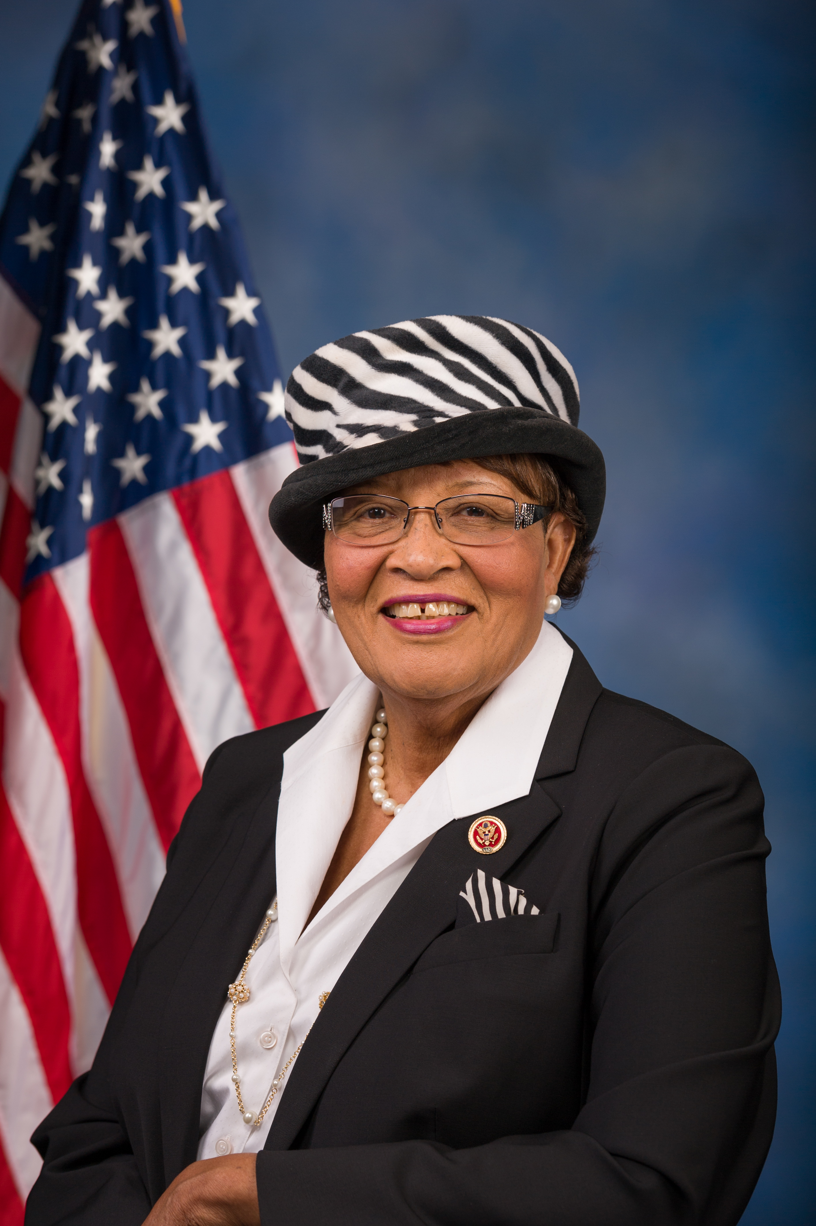 Alma Adams official portrait 114th Congress